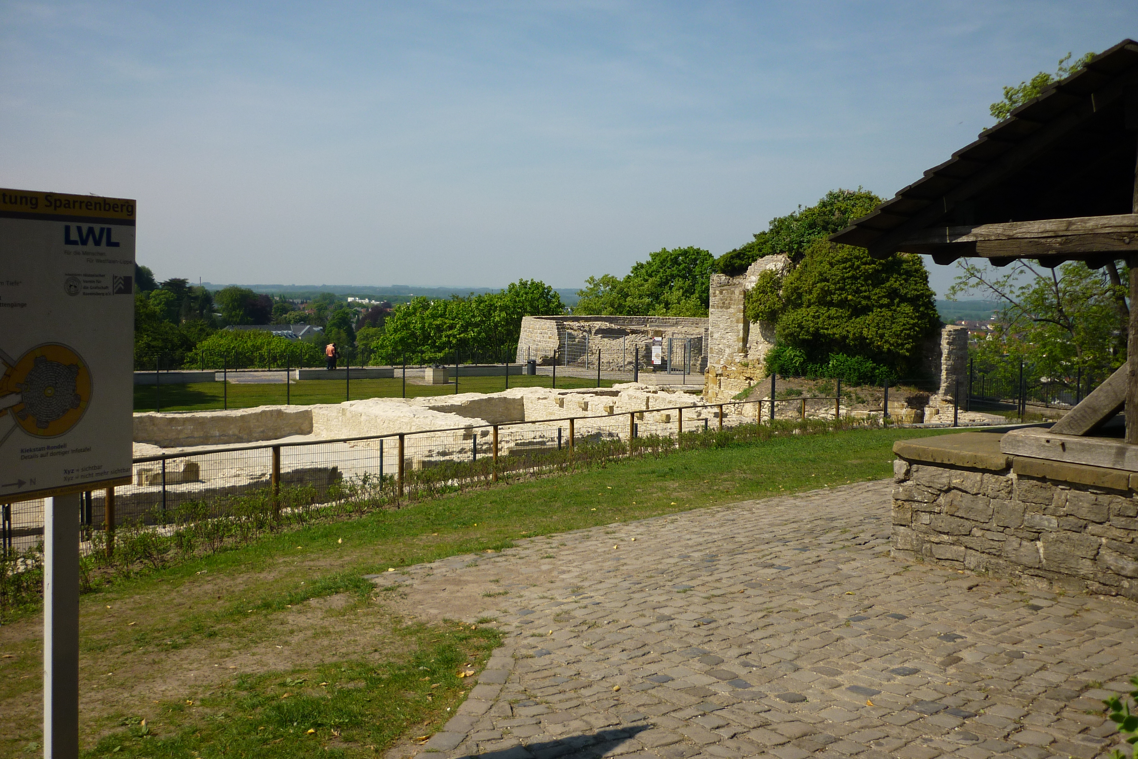 Germany, Bielefeld: Sparrenberg Castle (commonly named “Sparrenburg”)